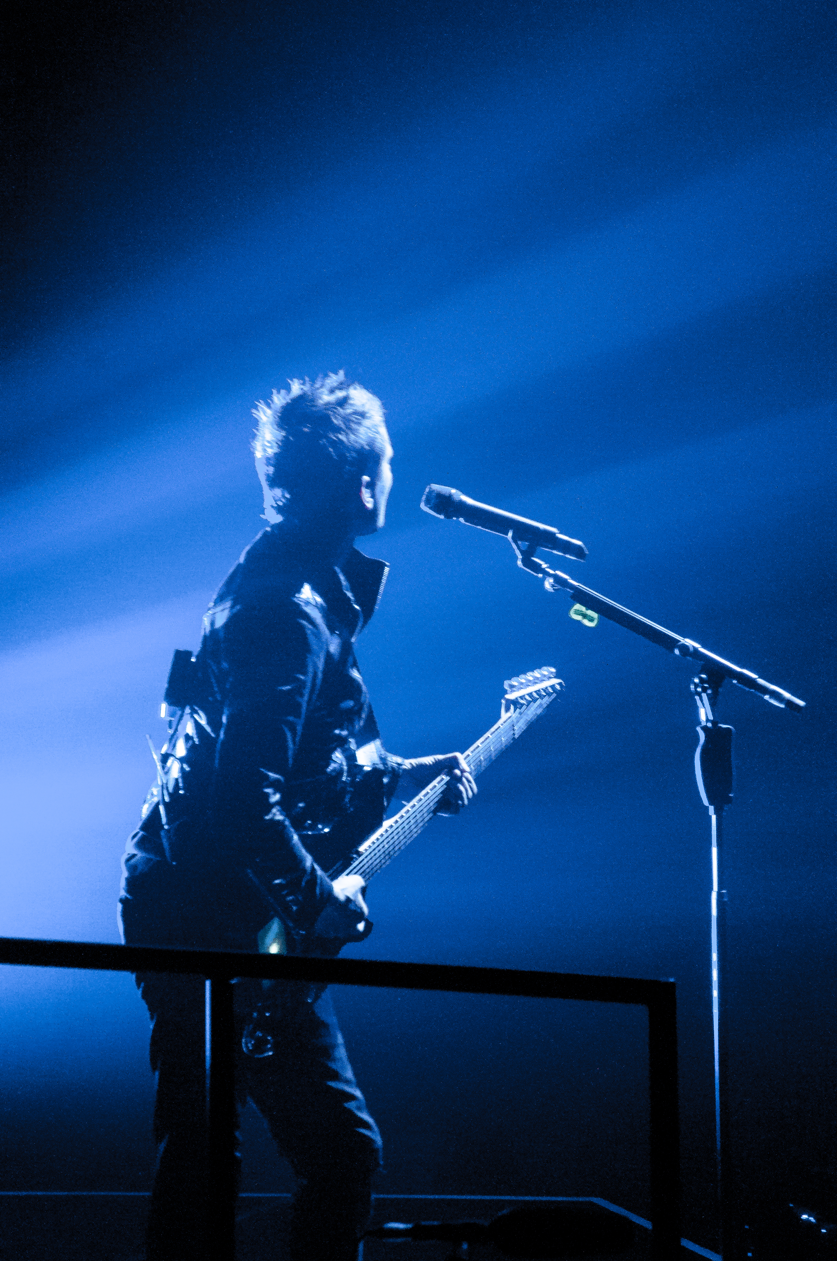 Matthew Bellamy of Muse at Air Canada Centre, Toronto on April 10, 2013 as part of The 2nd Law tour.